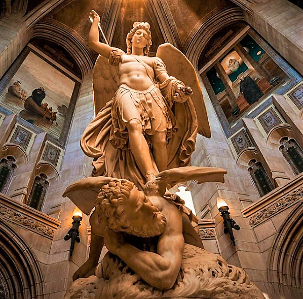 A statue of Archangel Michael conquering Lucifer inside Gasson Hall.